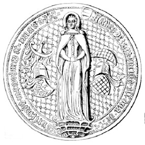 Agnes of Austria (1322–1392)